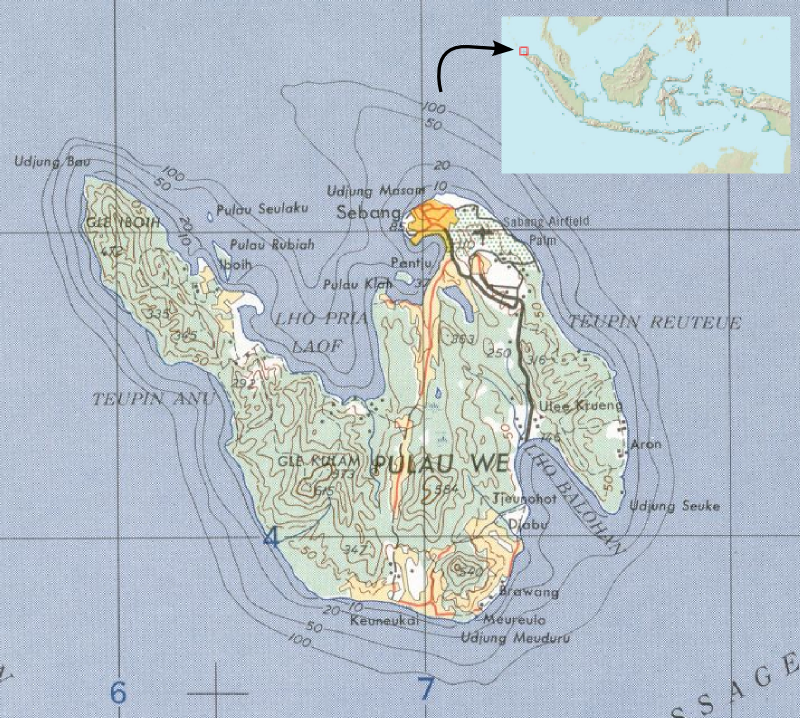 Weh Island locator map.